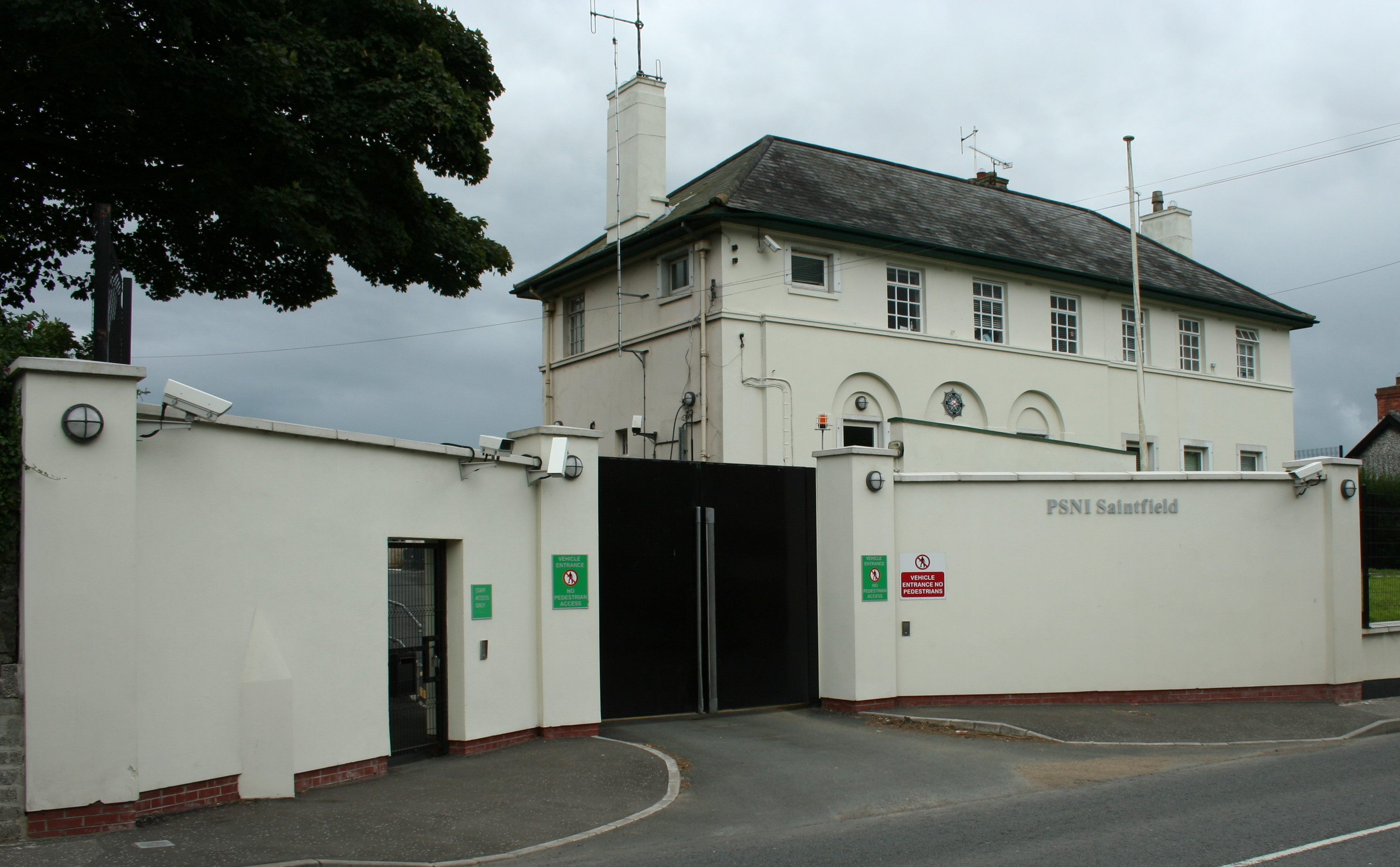 Police Service of Northern Ireland (PSNI) station, Saintfield.